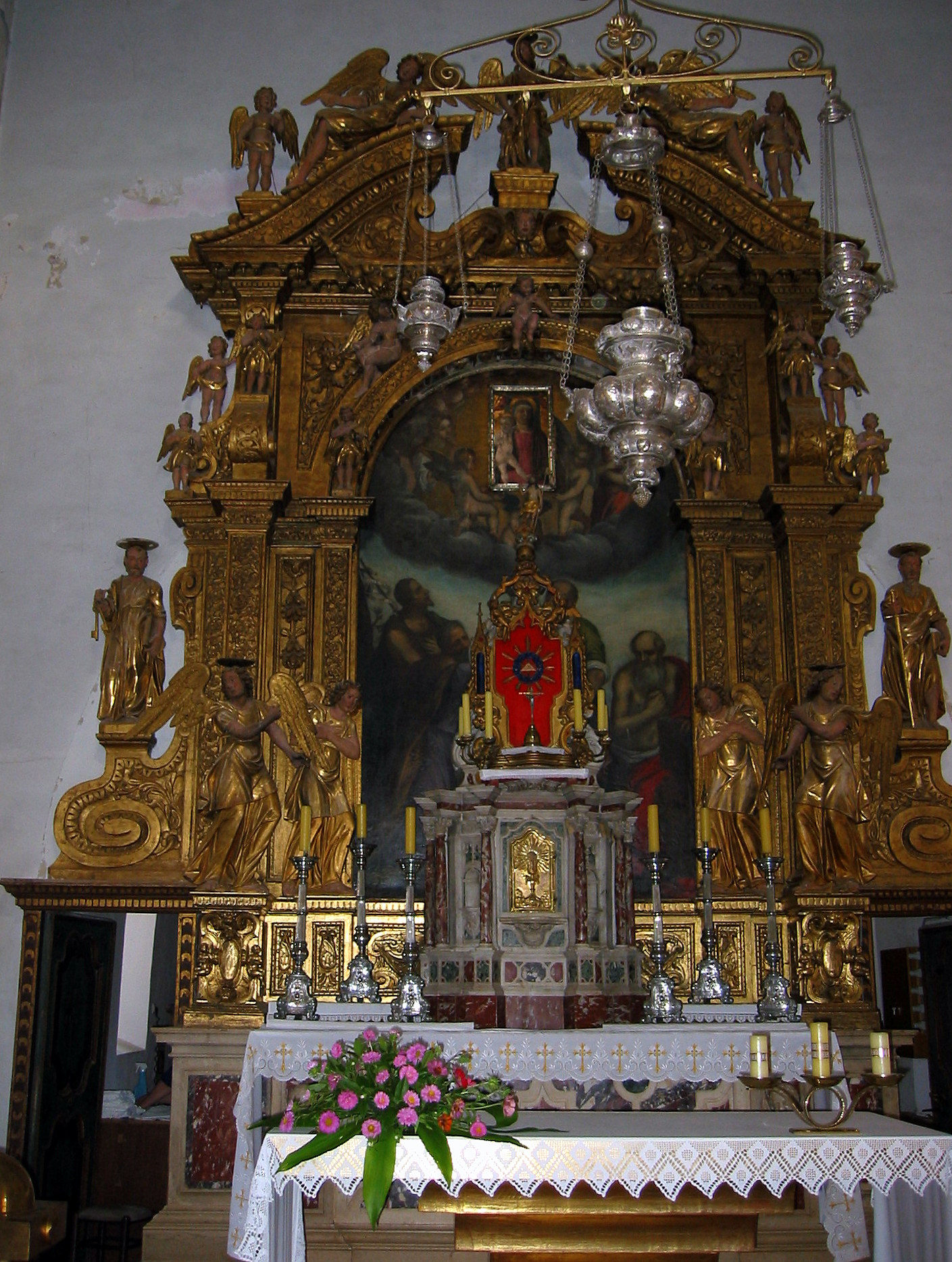 Altar church Saint Mary (Sali)